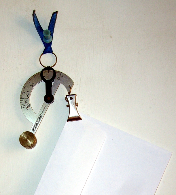 Balance with a counterweight to small objects weighing 0-100 grams